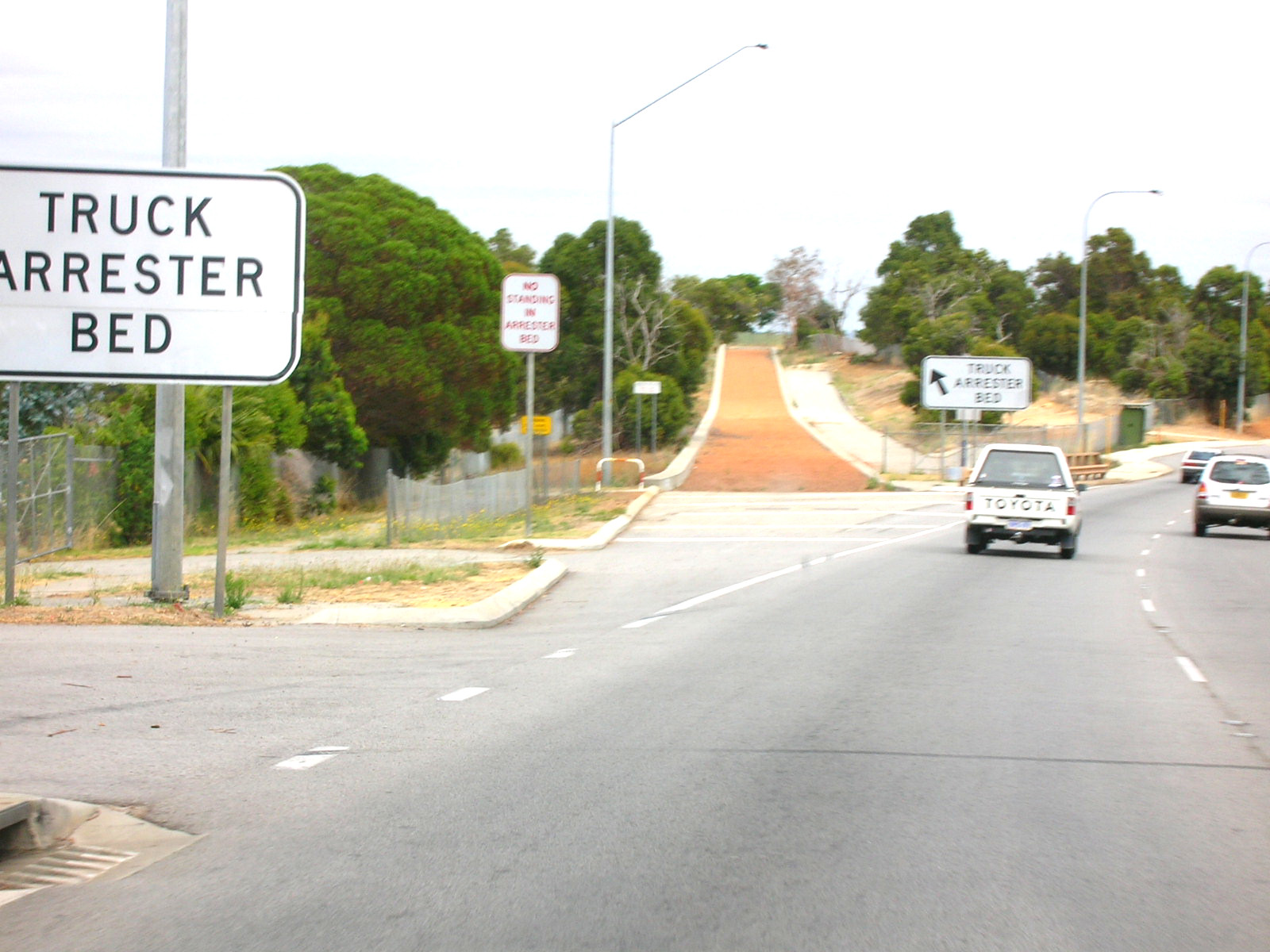 Located on the Great Eastern Highway in Perth, Western Australia. The orange colouration of the gravel is due to the lateritic profile, and common to the area. To the right of the arrester bed is a service road for bed maintenance/truck removal. Safety signage includes "Truck Arrester Bed" to the left and right of the bed, as well as "No Standing in Arrester Bed" (as required by traffic design codes).